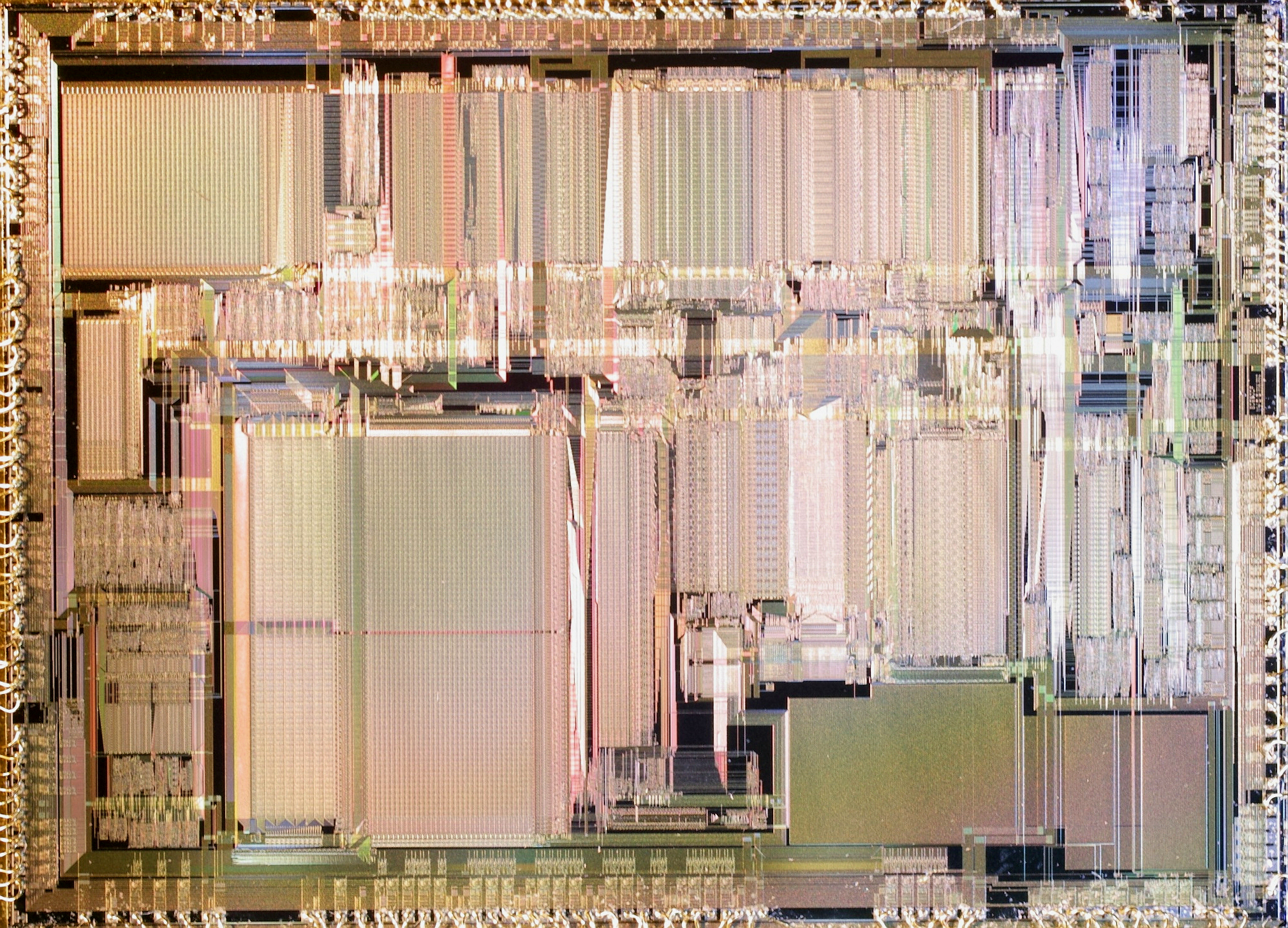 Intel A80960CF-25